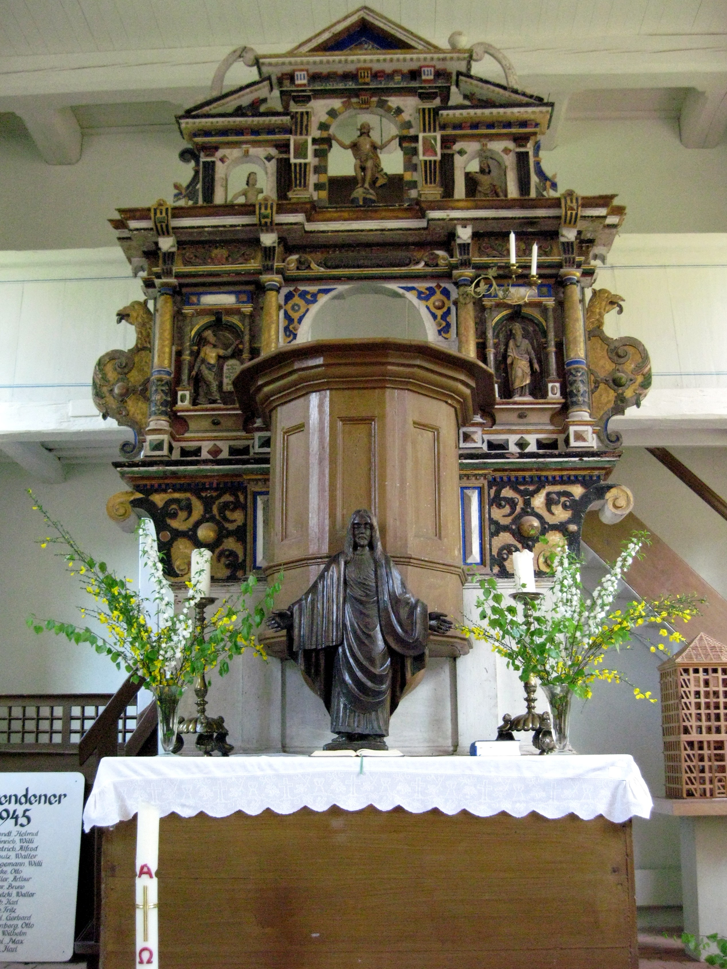 Altar of church in Prenden (Wandlitz) in Brandenburg, Germany